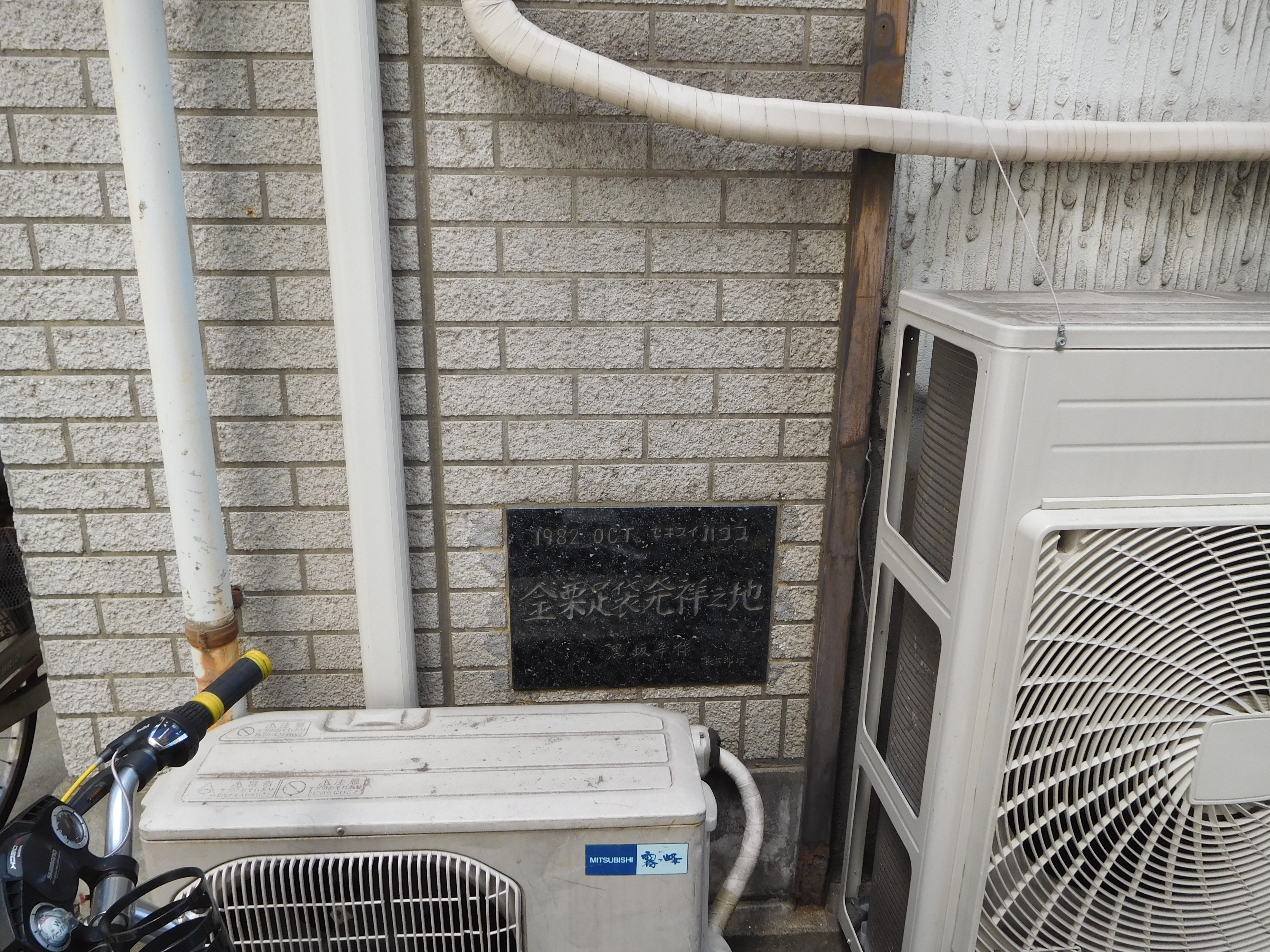 This is the stone plate of "the place where Kanakuri tabi originated".